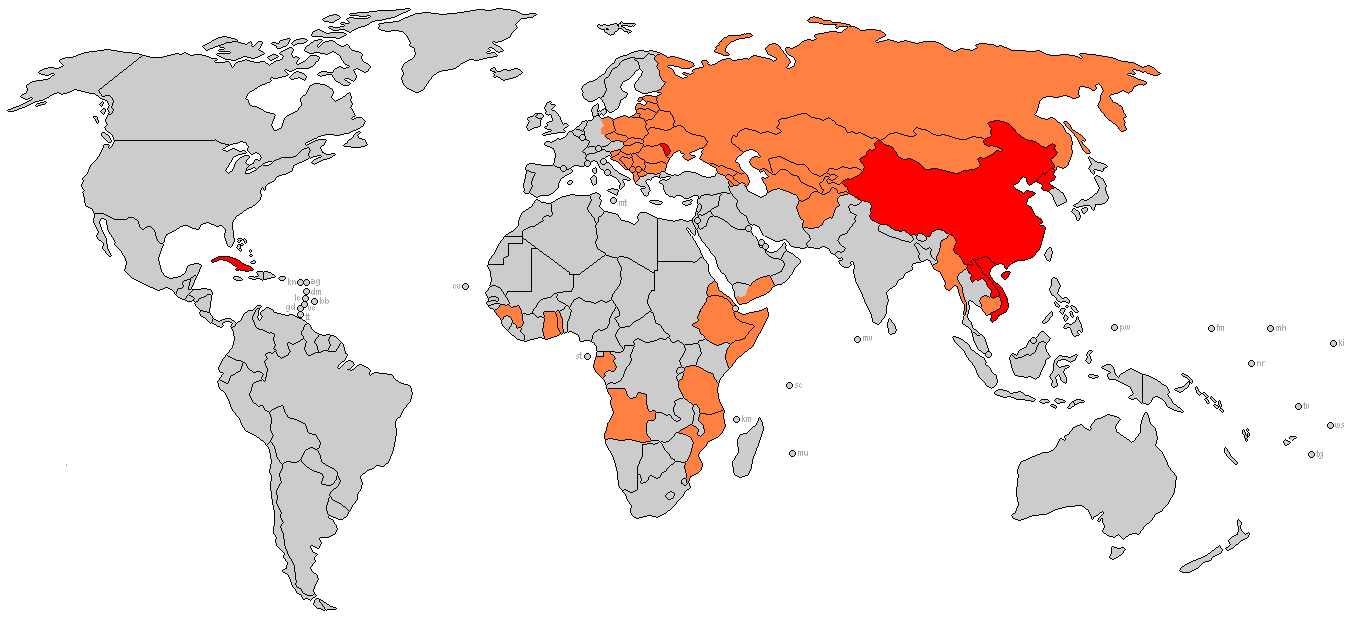 Formerly titled socialist states, led by communists (whether that be in title or in fact) are represented in orange, currently titled socialist states are represented in red. It is of heavy dispute whether there are any actual socialist or genuinely communist led states in the world today.